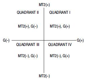 Quadrants of operation of a triac. Voltage polarity are referred to the MT1 terminal.